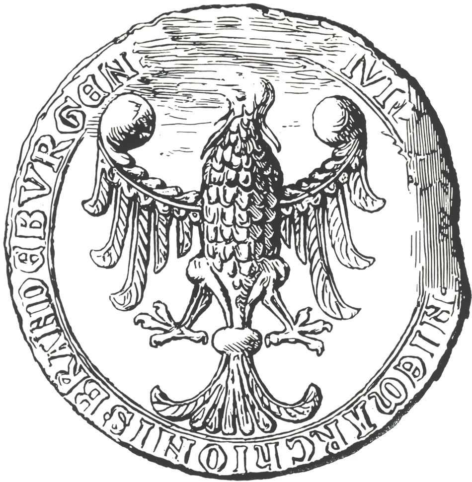 Oldest seal of the historical city Cölln (Mark Brandenburg) from 1334, dimension 58 mm.